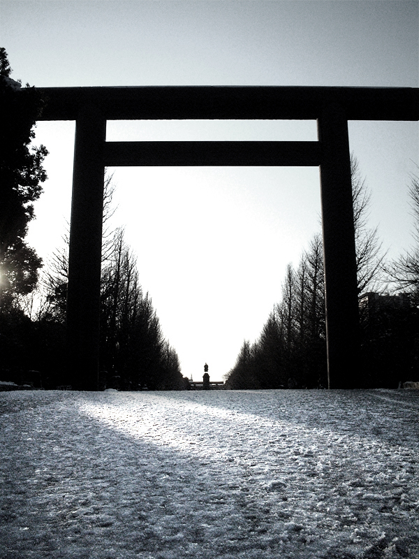 A gateway to a Shinto shrine. In Yasukuni Shrine.